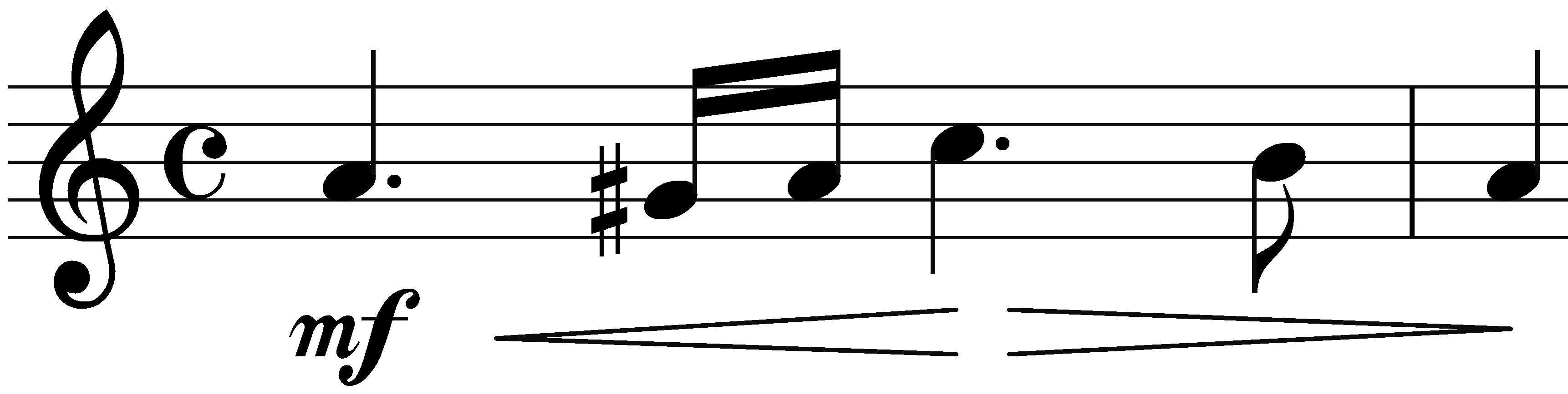 Sample sheet music dynamics